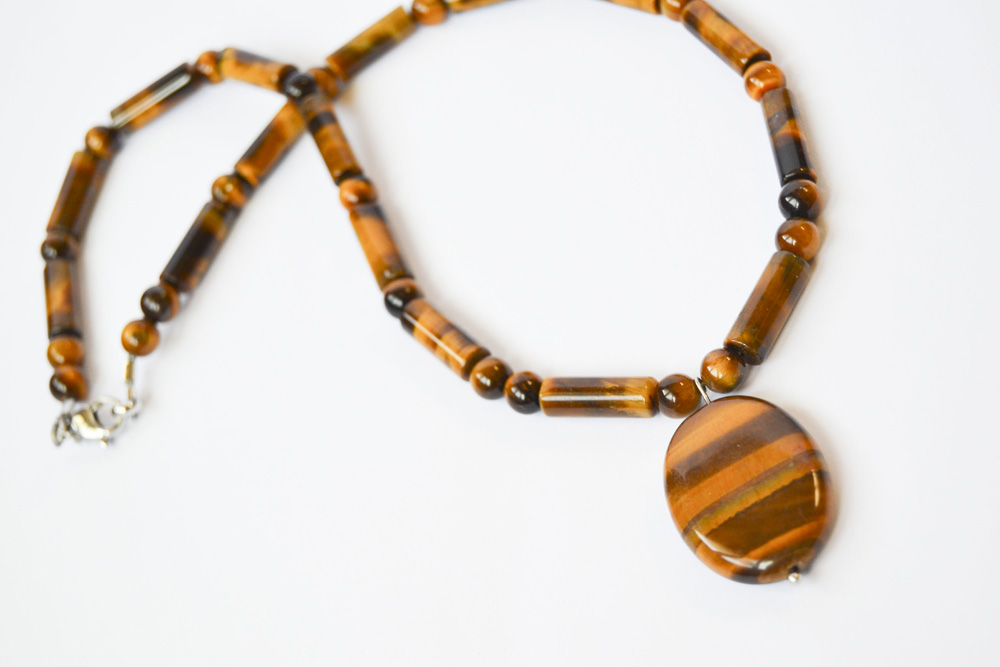 A beaded necklace made from tiger eye